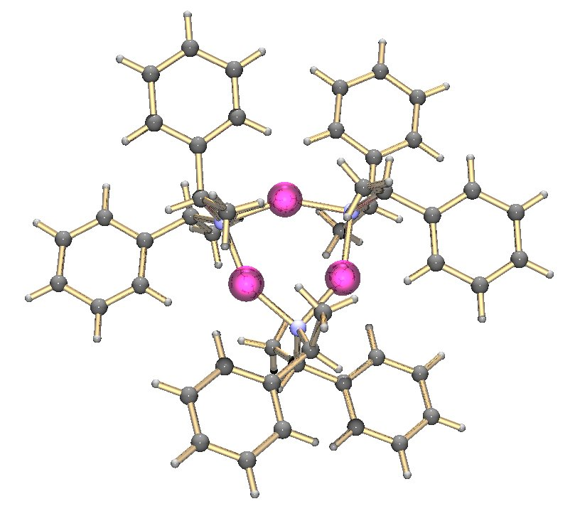 trimer of lithium amide